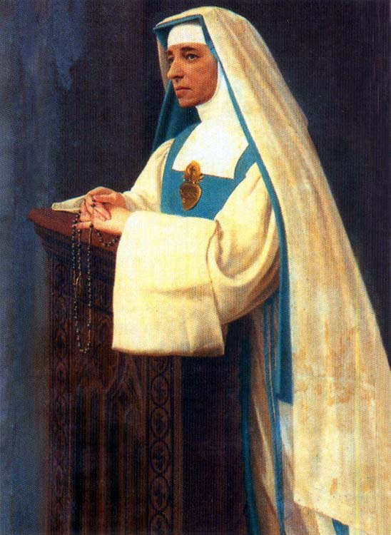 Portrait of Émilie d'Oultremont d'Hooghvorst (blessed mother Mary of Jesus, 1818-1878), foundress of the Society of Mary Reparatrix